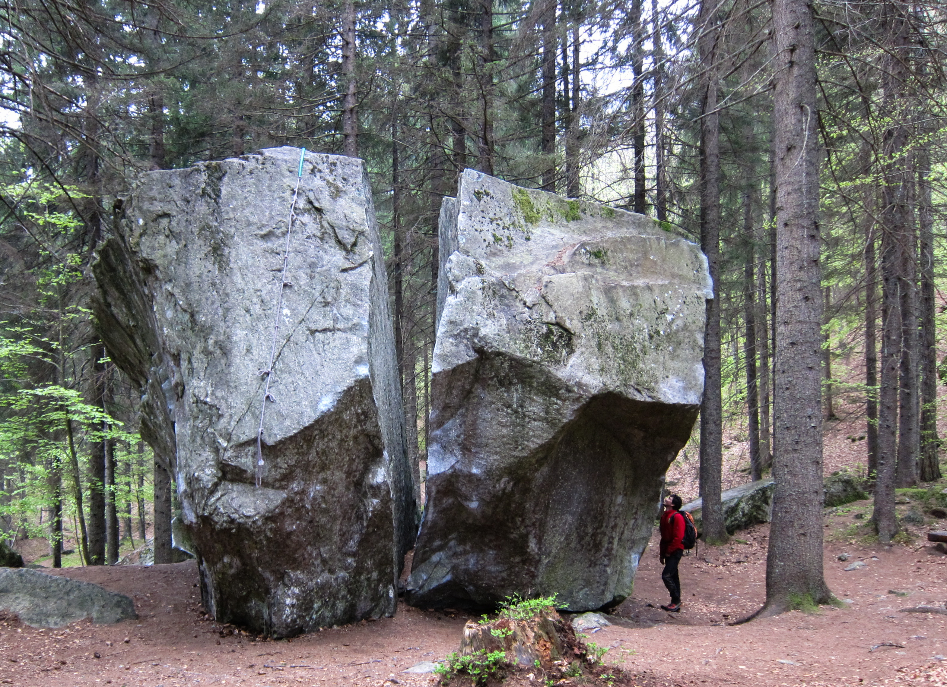 View of the most famous boulder in the woodland of Foppiano. Foppiano di Crodo (Verbano-Cusio-Ossola, Piemonte - Italia) is famous for its boulders among climbers and this particular rock is the symbol of the area. You can notice the rope used by boulder climbers for lowering from the rock. Picture taken on the 24th of April in 2017.